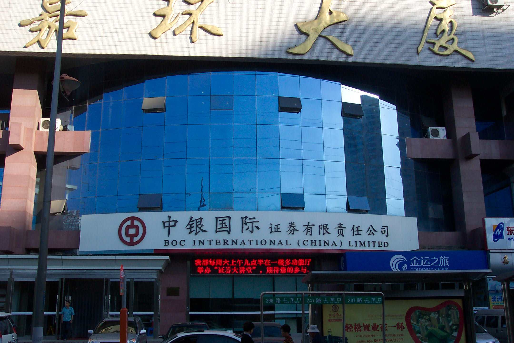 BOC International (China) Limited in Shenyang